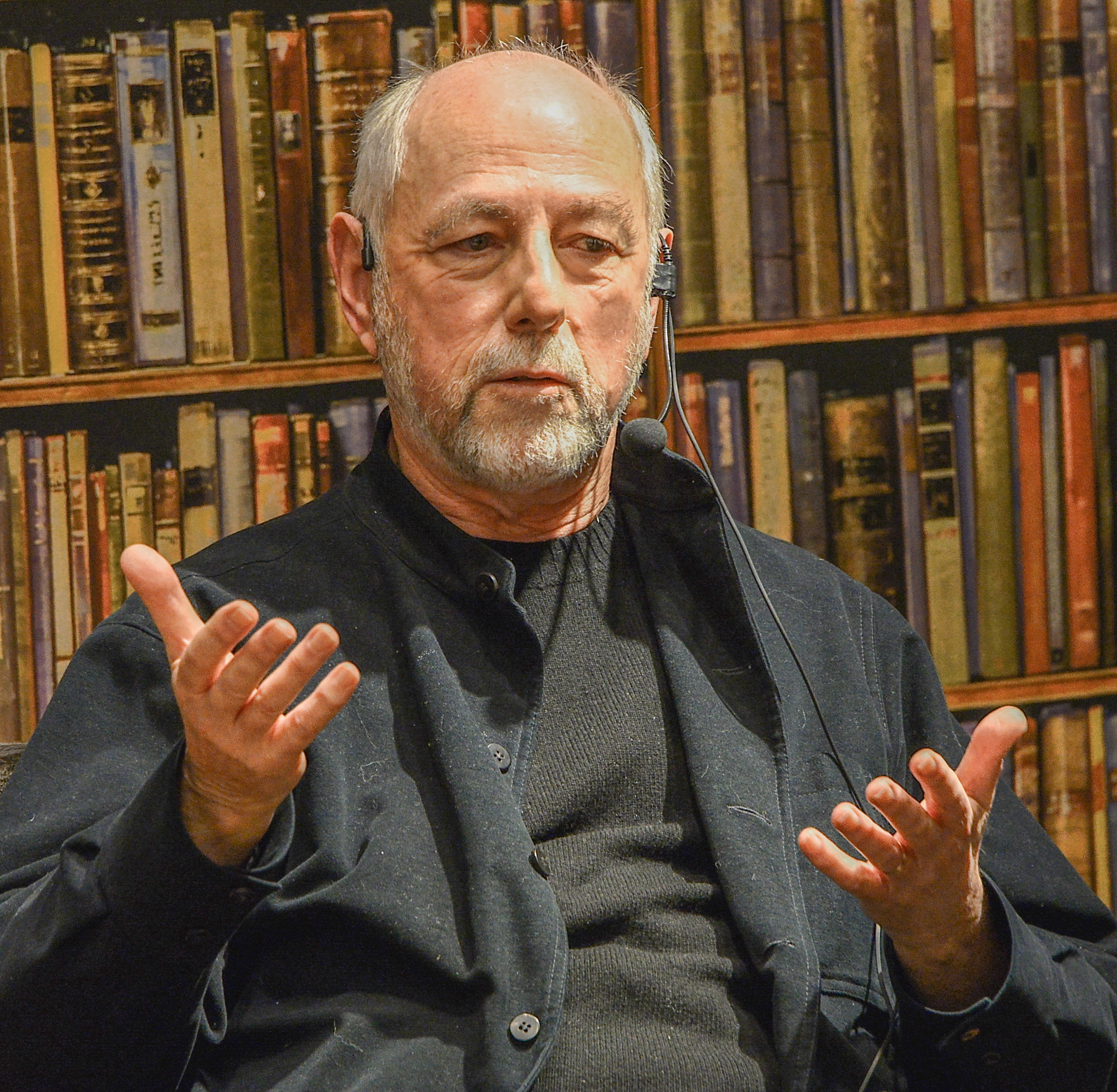 Leif Zern presents his book "Kaddish on motorcycle" on Akademibokhandeln City in Stockholm.